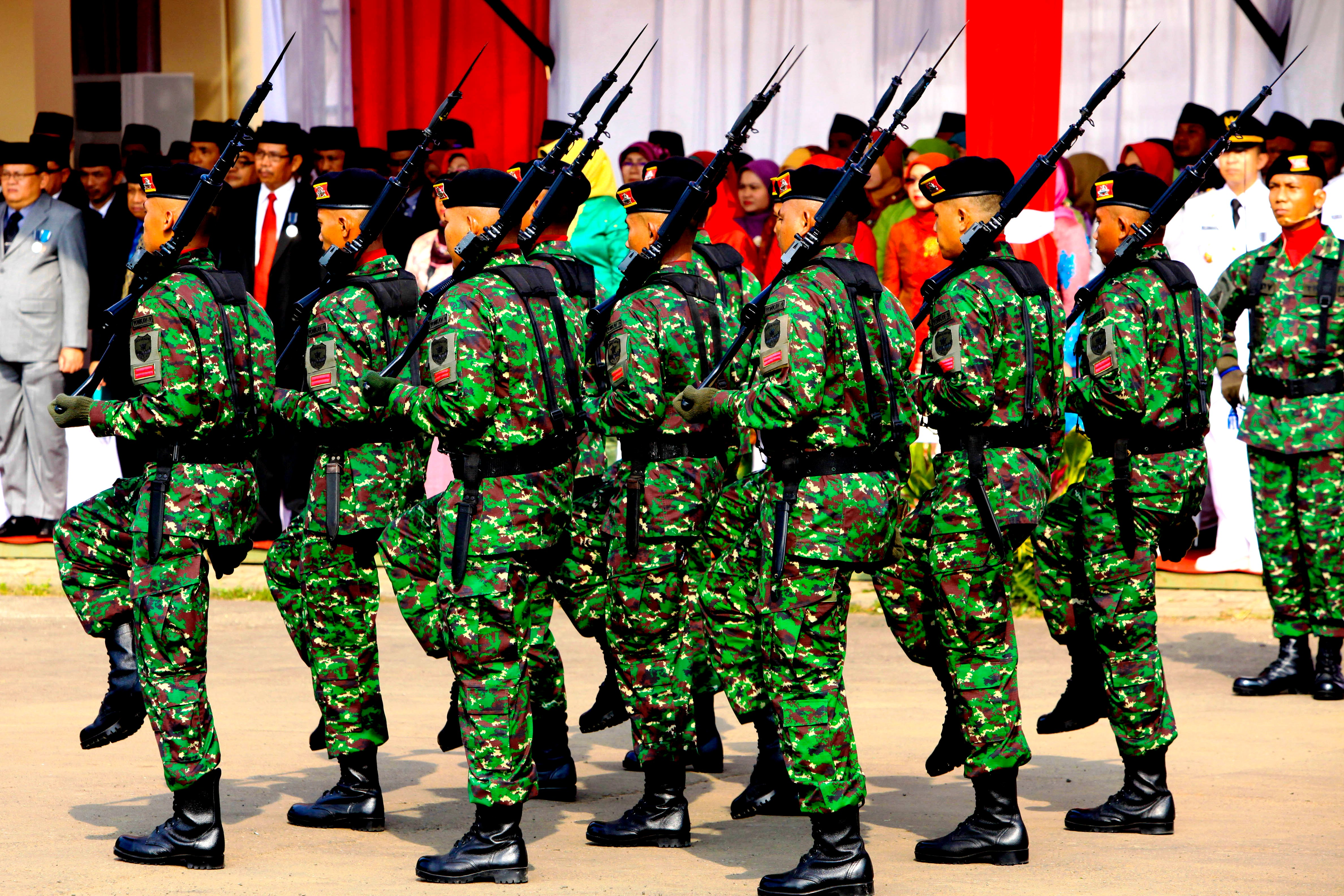 Indonesian army soldiers camo